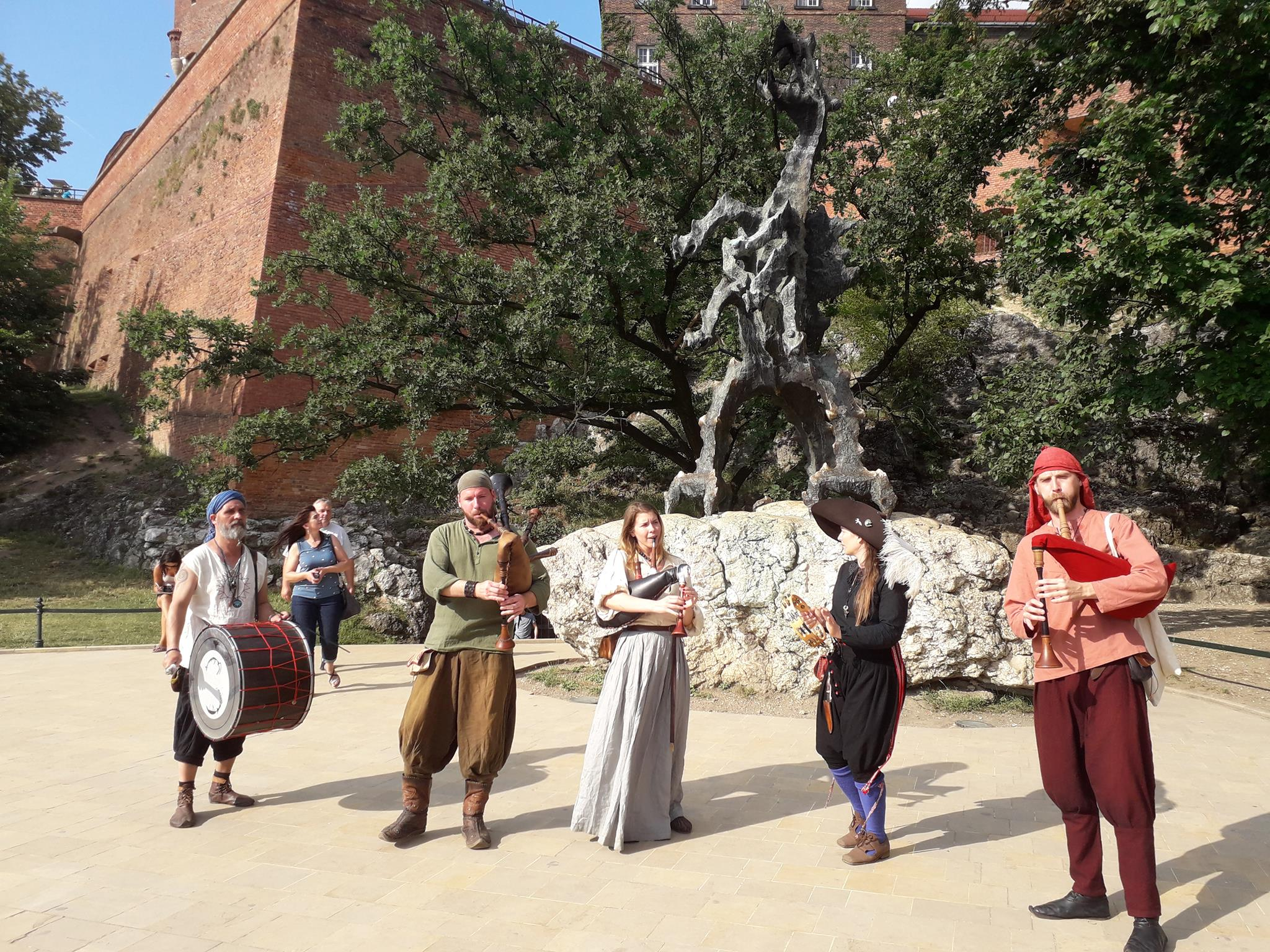 Szelindek band playing in Kraków in 2018